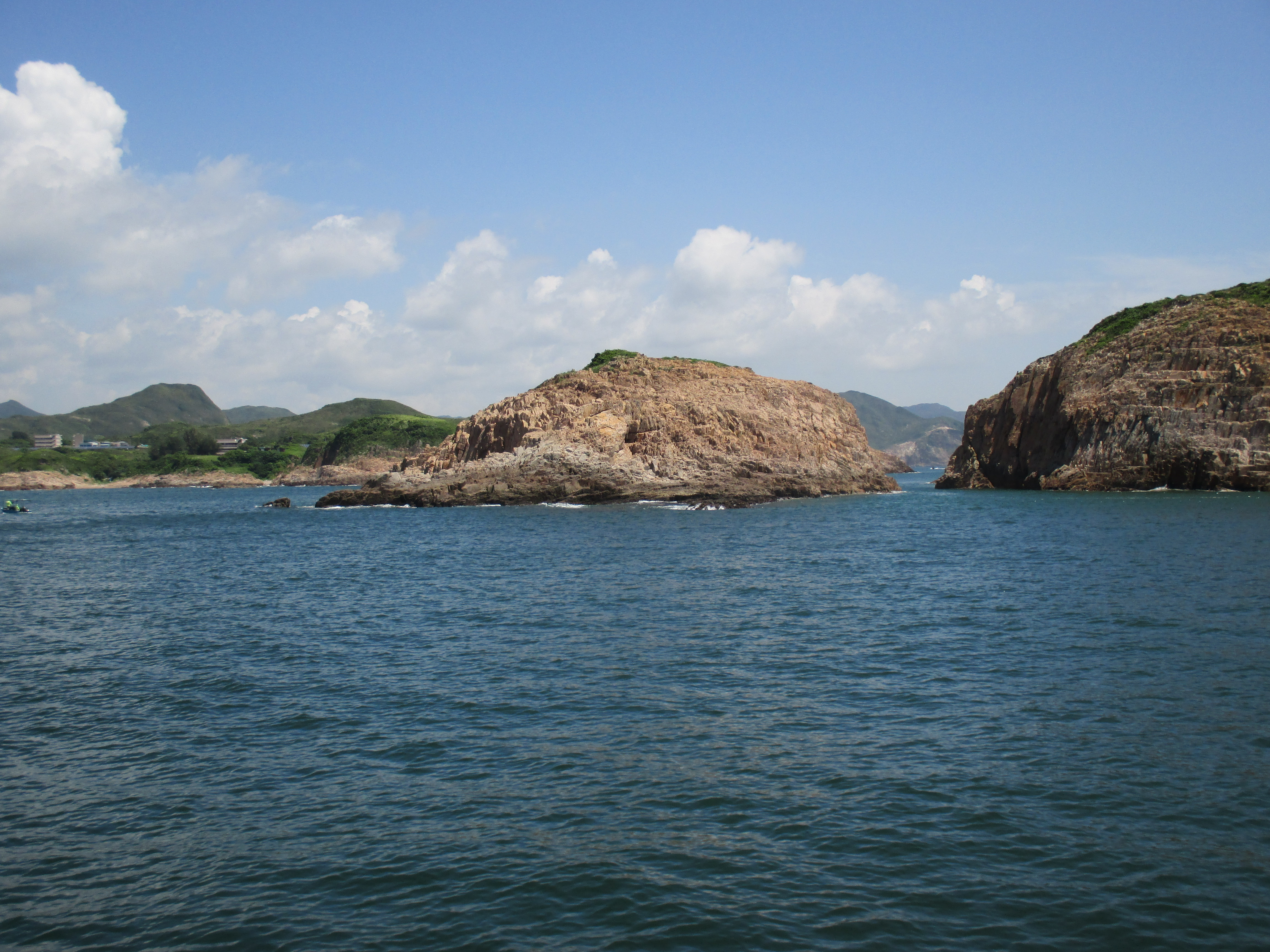 Yuen Kong Chau and Tung Sam Chau. Town Island, viewed from the south, is in the background